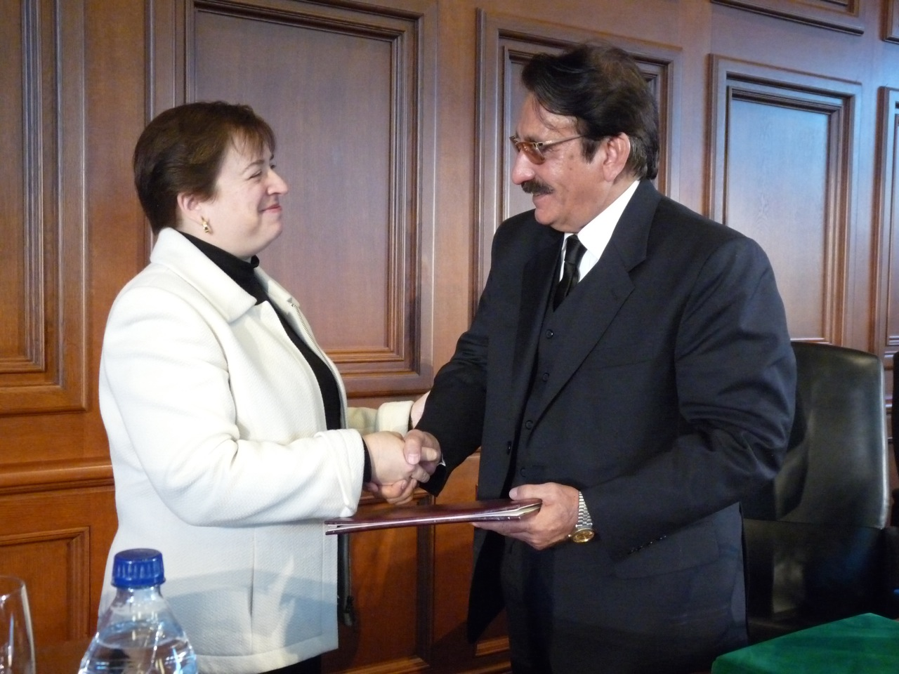 Then-Harvard Law School Dean Elena Kagan delivering the school's highest award, the Medal of Freedom, to the Chief Justice of the Pakistani Supreme Court, Iftikhar Muhammad Chaudhry in November of 2008.